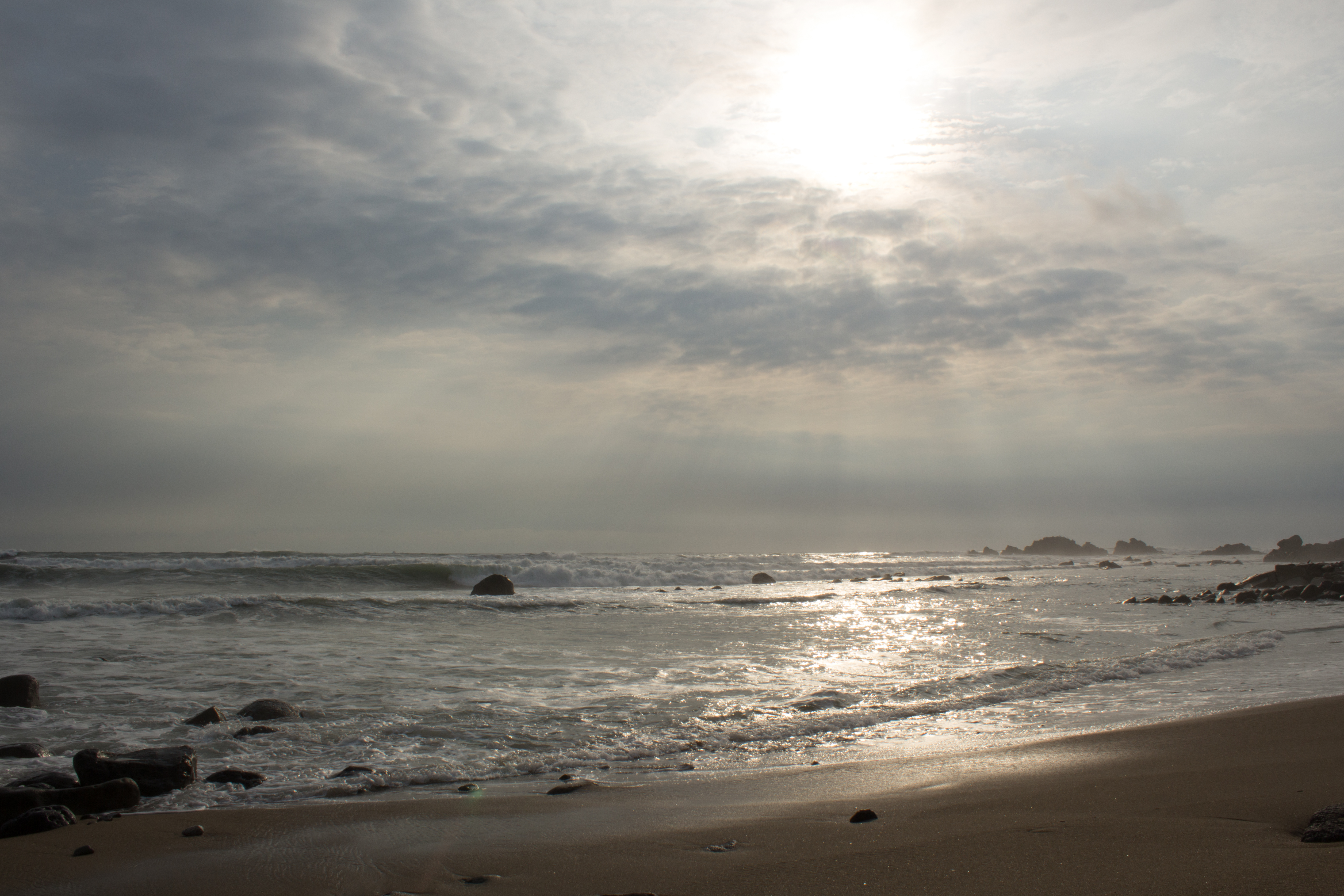 The beach in Tokawa Town (Tokawamachi)